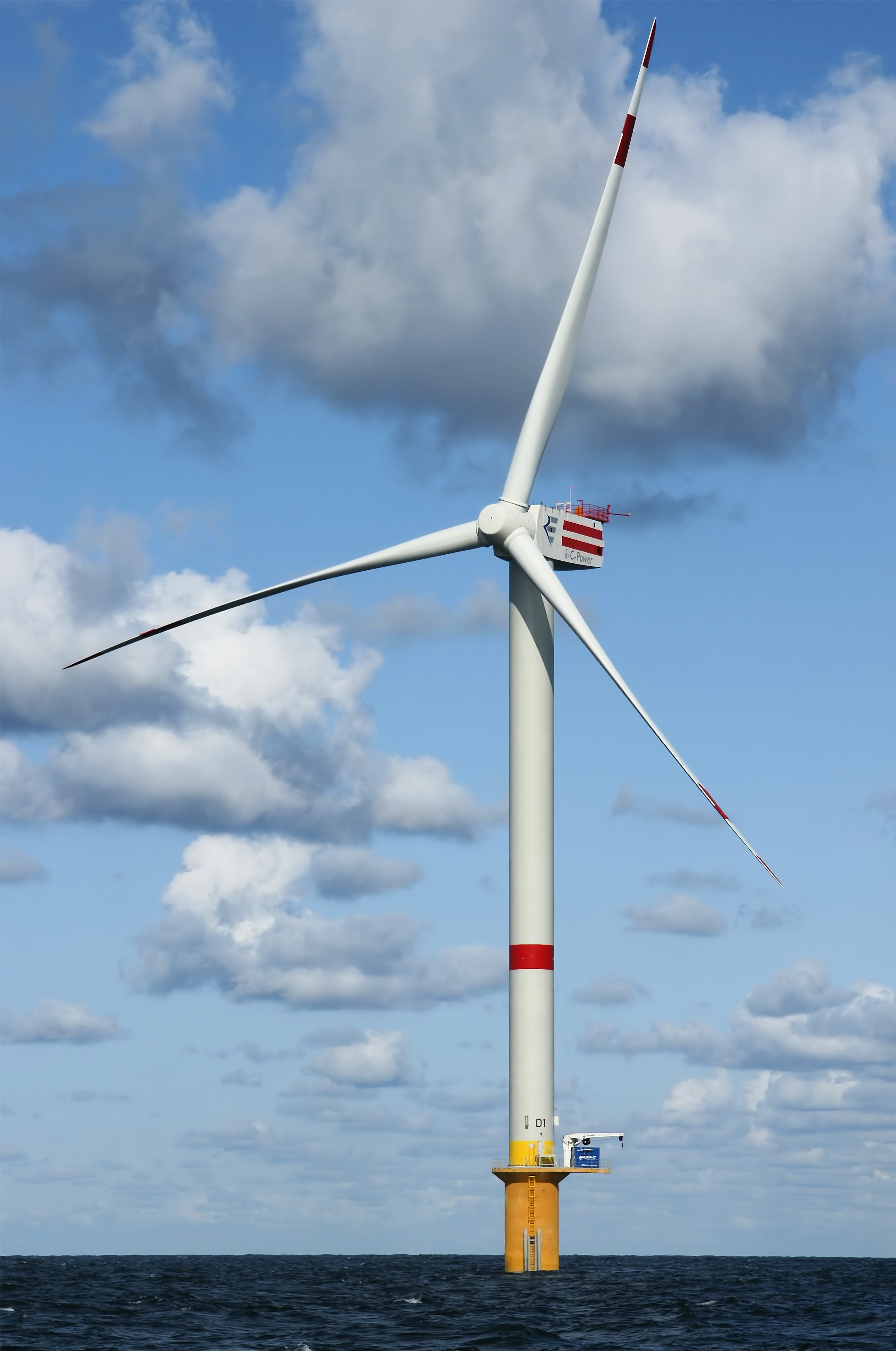 Newly constructed windmill D1 on the Thornton Bank, 28 km off shore, on the Belgian part of the North Sea. The windmill is 157m (+TAW) high, 184m above the sea bottom. Vane length : 61.5m Rotor diameter: 126m Rotor area: 12.469m² Turbines: 5MW manufactured by REpower.